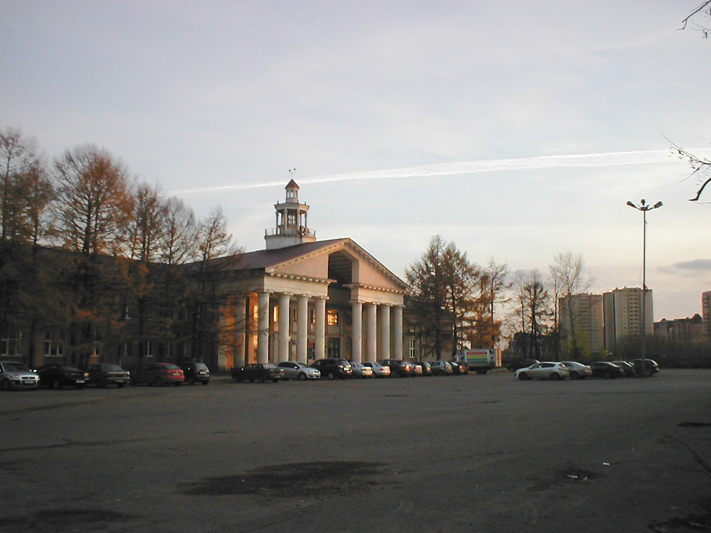 Air terminal square in Kazan